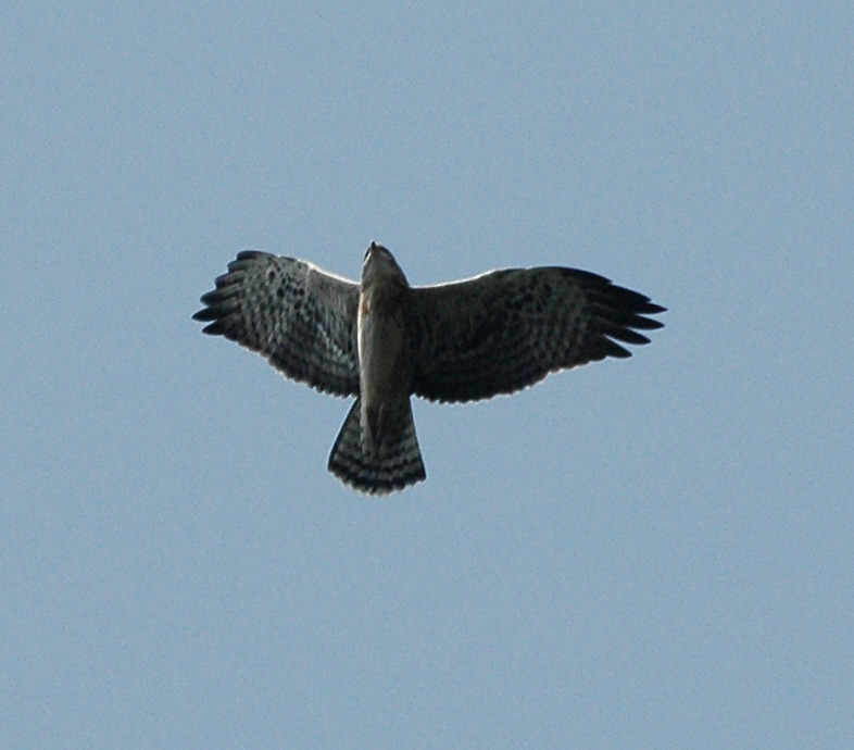 Ayres's Hawk-eagle (Hieraaetus ayresii) Mabira Forest, Uganda